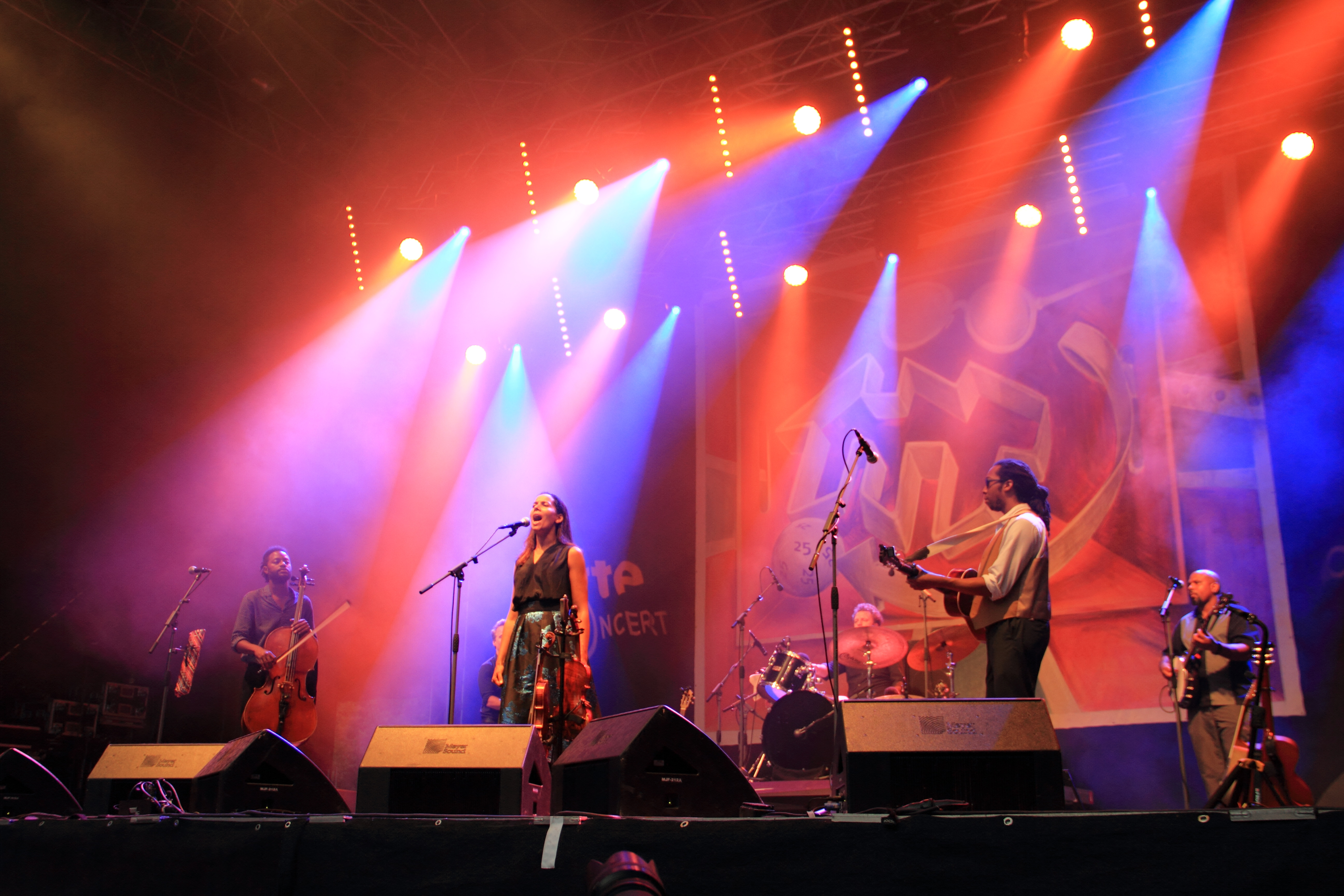 Rhiannon Giddens from North Carolina with band at TFF Rudolstadt 2015.